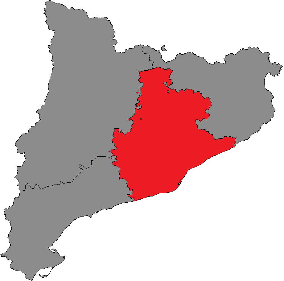 Parliament of Catalonia district of Barcelona.